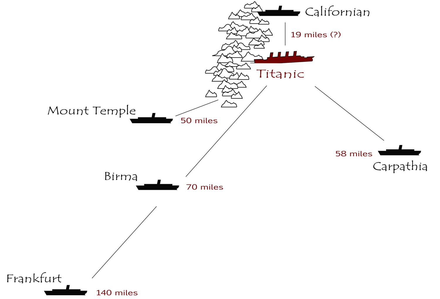 Map of ships lying near the Titanic when she sank.